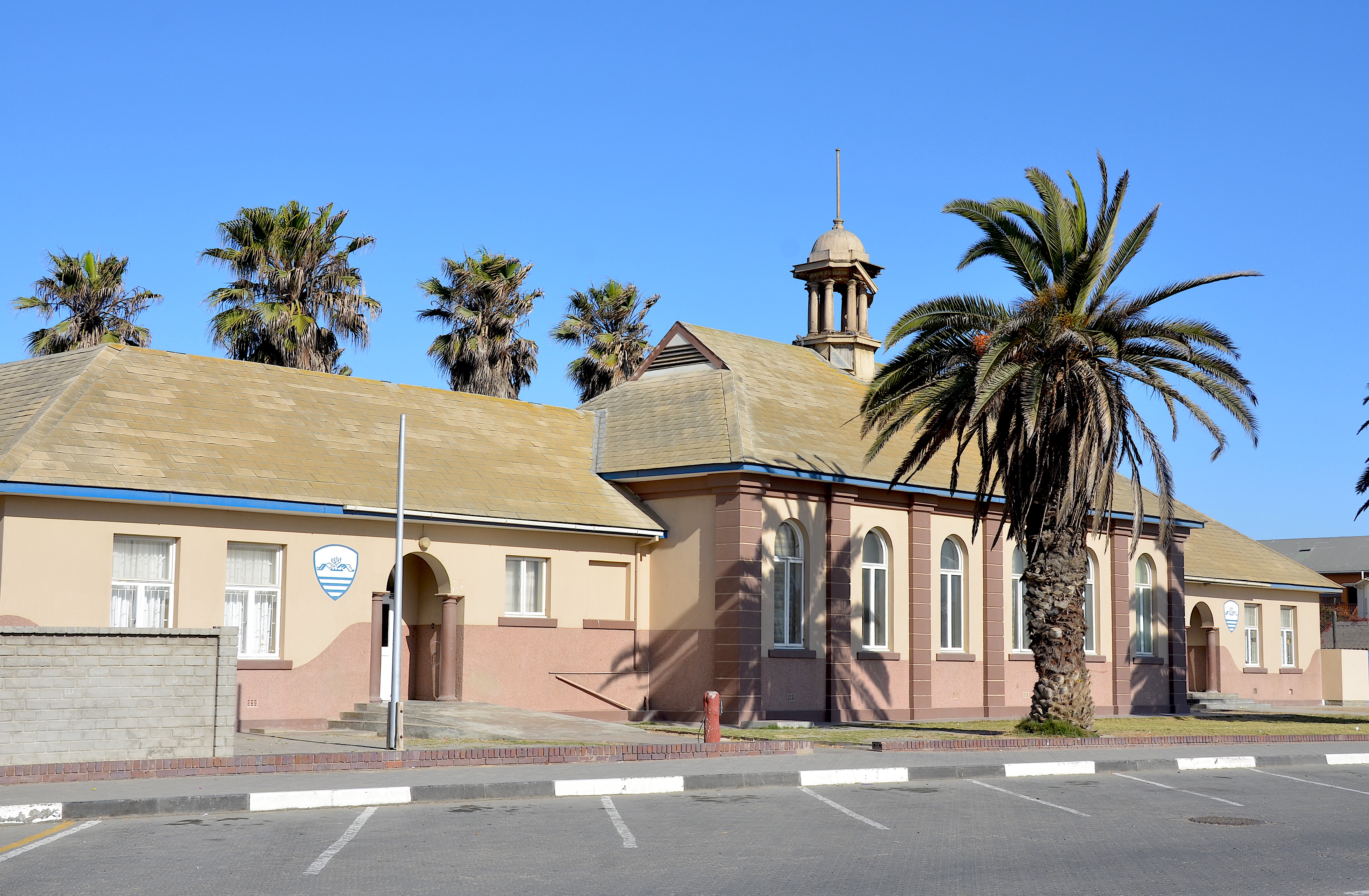 Namib Primary School in Swakopmund, Namibia (2014)